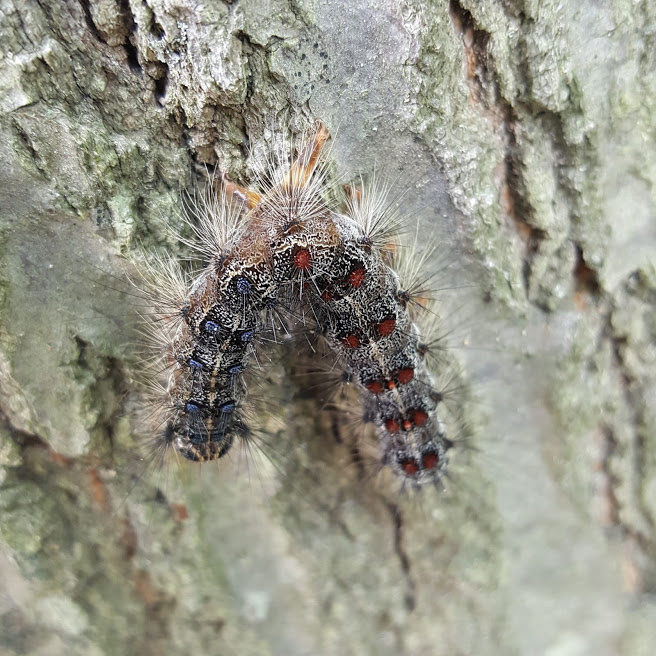 Gypsy moth caterpillar (Lymantria dispar dispar) found dead on the bark of a tree. When these caterpillars are killed by viruses, they are often hanging in a 'V' shape with their heads and hind parts pointing toward the ground. There will generally be multiple caterpillars in the same area killed by the same virus.